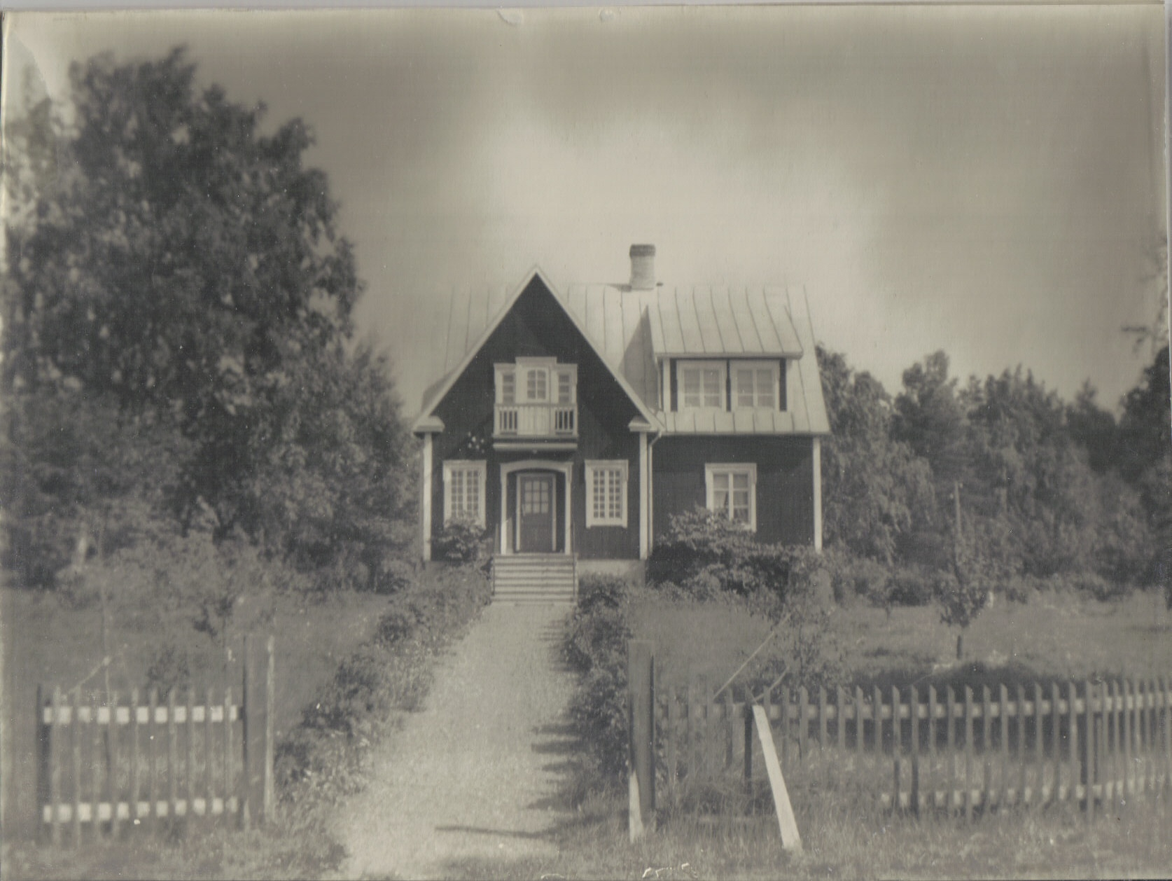 A house built in 1939, The village of Ragetsbole, the Aland Islands, Finland